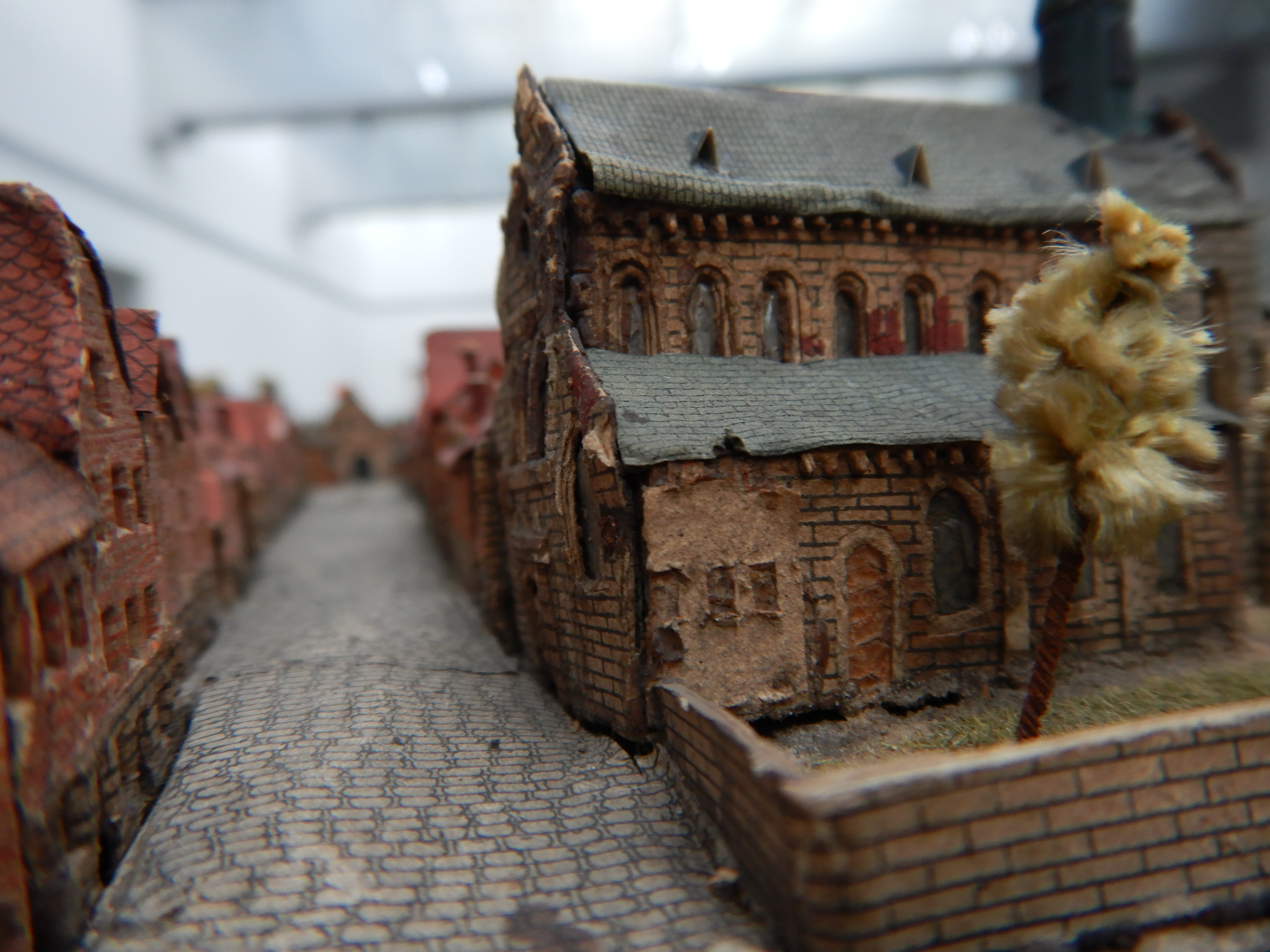 "Plan-relief", commissioned by Louis XIV, preserved and exhibited in the "Palais des Beaux Arts" in Lille, under restoration (December 2018). View from a paved street, from the inside of a walled city, at the time of Louis XIV, with in the foreground on the right a wall, a small grassed area, with a tree, in front of a Romanesque church, with slate roof; The photo shows the street in a row. with brick houses and red tile roofs on both sides. the top of this museum's room is covered with glass slabs, letting the light through. Note: some brick red paint has been applied to a part of the church's wall. This same painting is found on other buildings, still covering only a small part of the wall. We still do not know its meaning